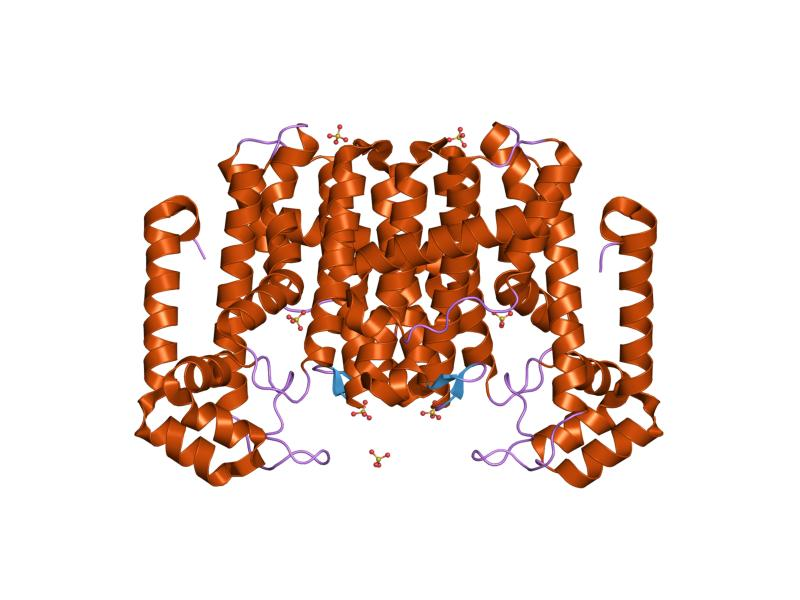 Cartoon representation of the molecular structure of protein registered with 1v4e code.